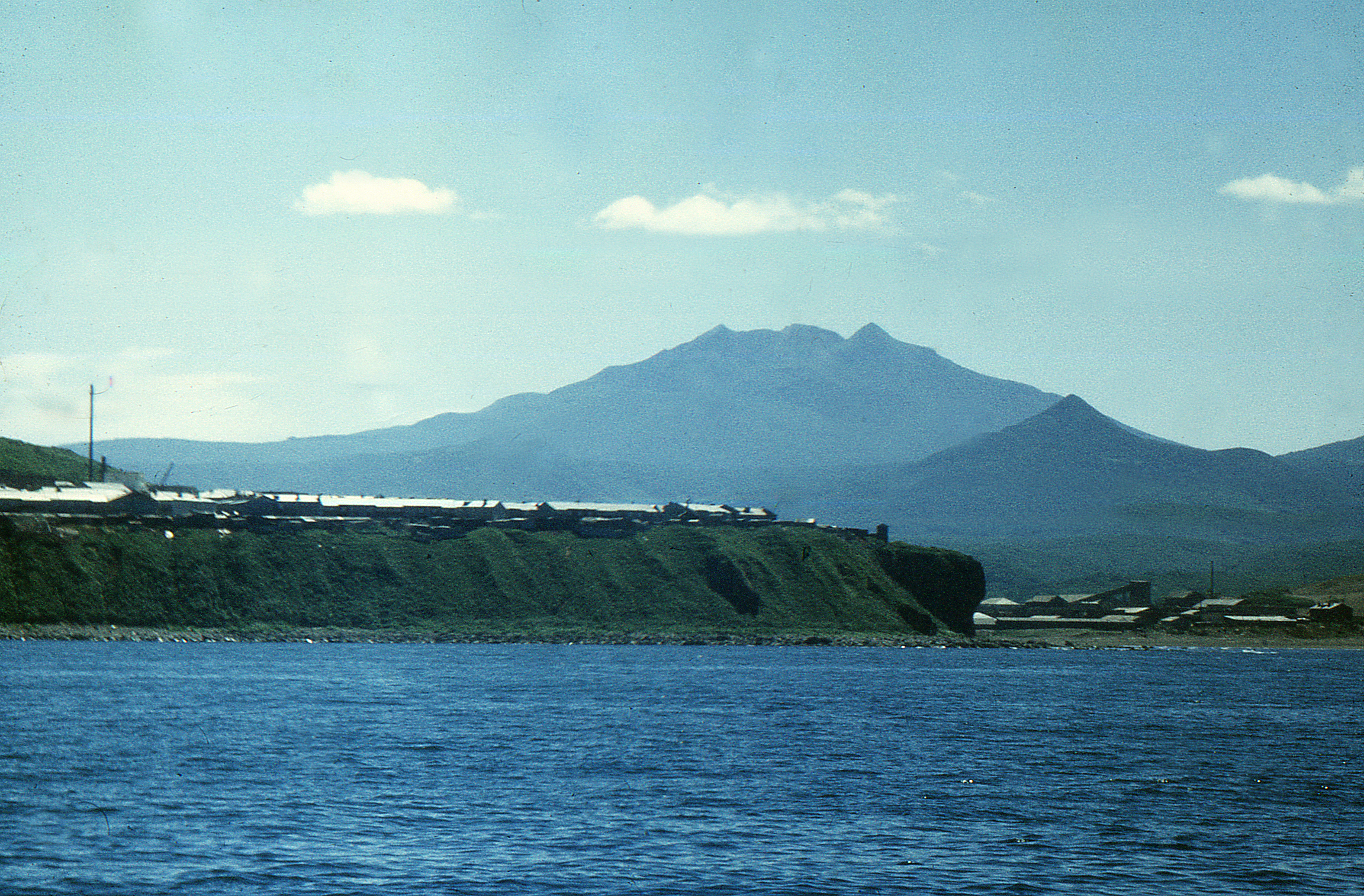 Baransky volcano as seen from the northwest in Iturup Island, Russia